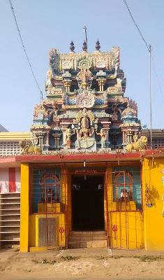 Vallam angalaparamesvari temple வல்லம் அங்காள பரமேசுவரி கோயில்